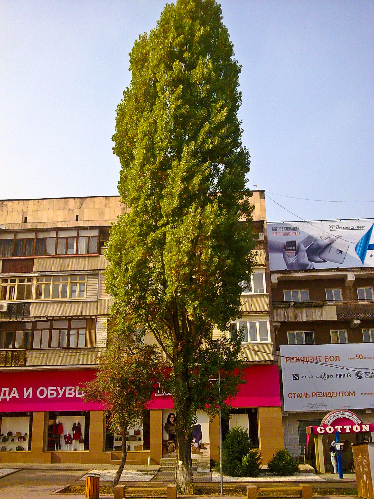 Populus pyramidalis tree in Almaty city, Kazakhstan